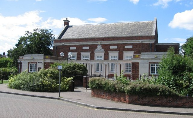 Braintree District Register Office, John Ray House, Bocking End, Braintree This handsome neo-Georgian building, built in 1929, was sponsored by William Julien Courtauld, a major benefactor to Braintree and designed by J Stuart. Adjacent to the former Braintree High School (1906), now itself a Social Services office, this building was the Gymnasium, with the low square wings seen left and right the changing rooms, boys and girls respectively. It is now the Braintree District Register Office for Births, Marriages and Deaths and a venue for Weddings